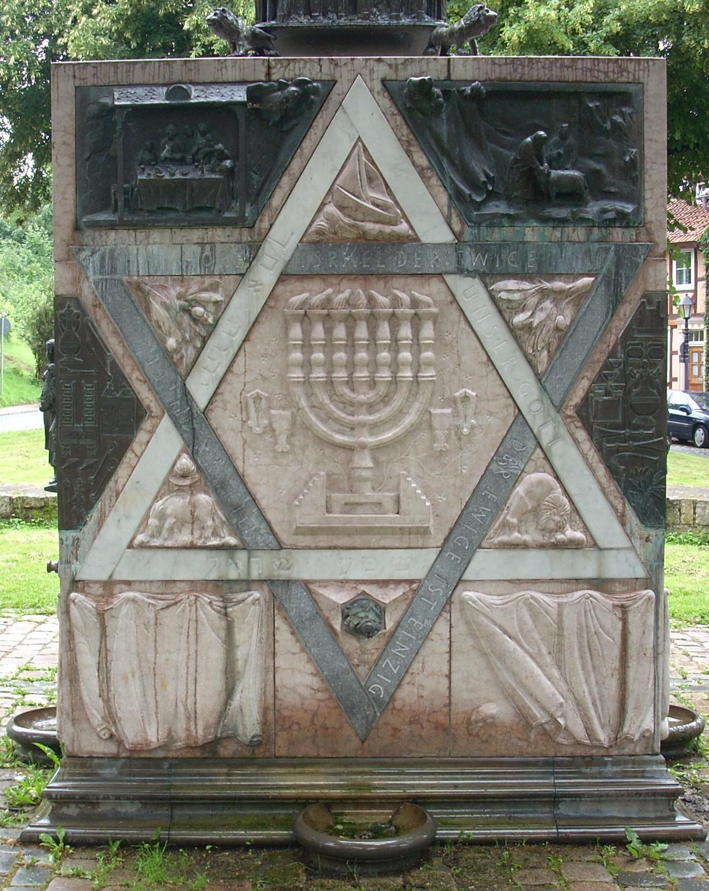 Synagogue Memorial Lappenberg; Hildesheim, Germany